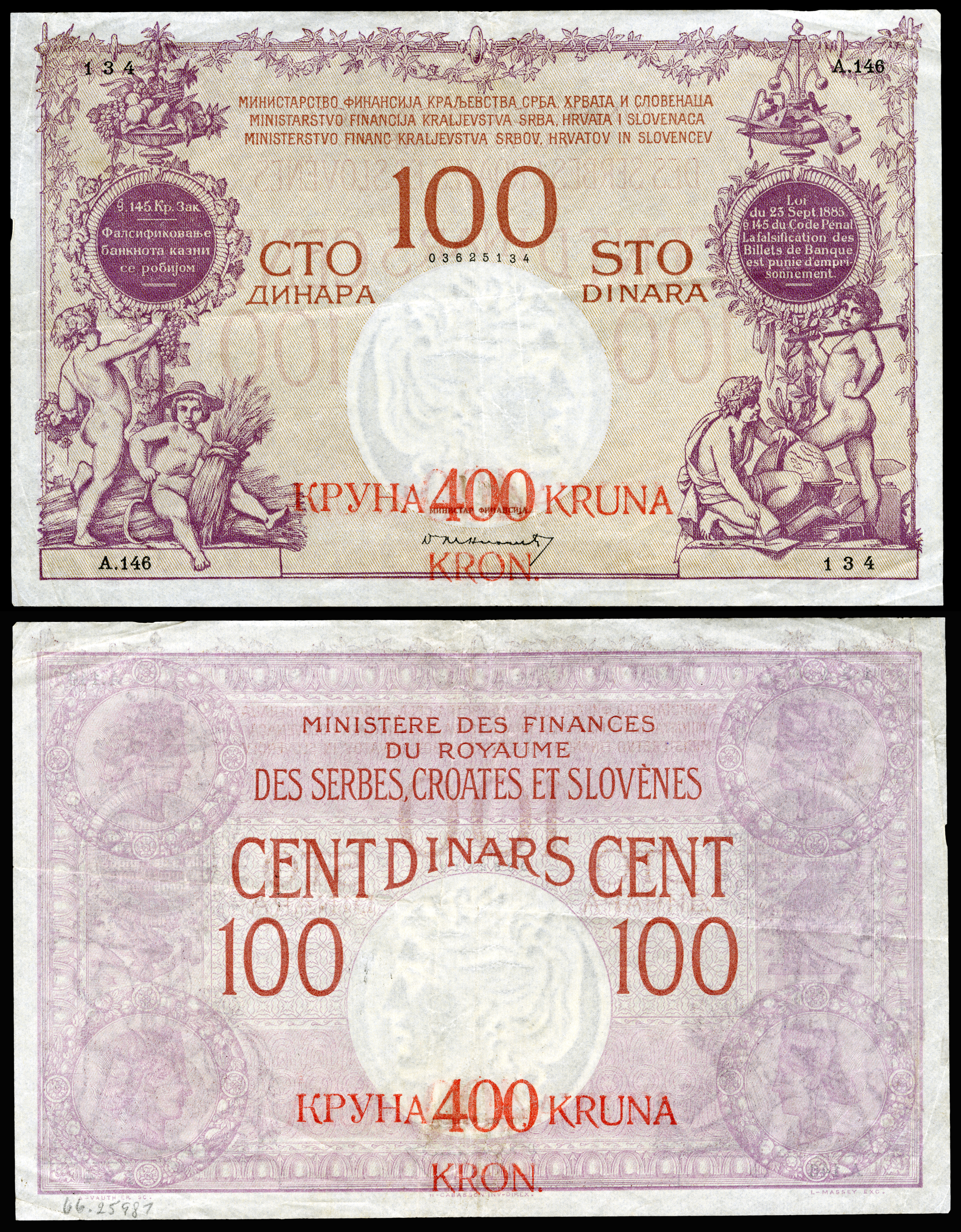 Kingdom of Serbs, Croats and Slovenes (Finance Ministry), 400 kronen stamped over 100 dinara (1919, Krone provisional issue).